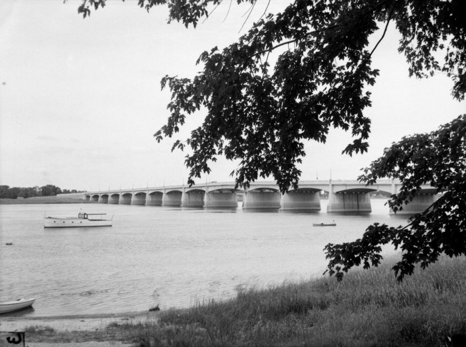 We see the Pierre-Le Gardeur bridge, nicknamed "end of the island bridge" between Pointe-aux-Trembles and Repentigny.